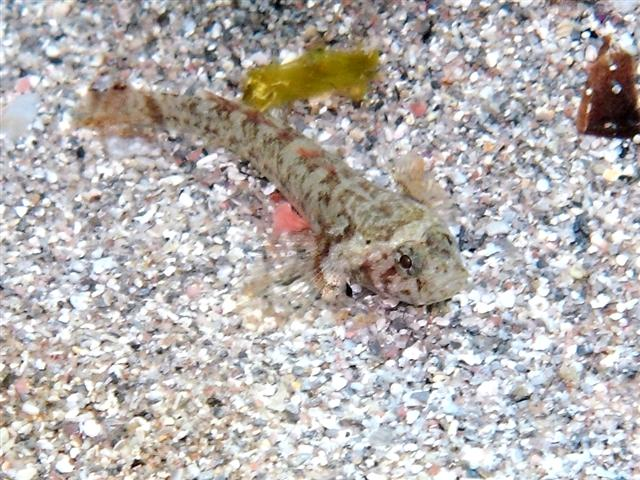 Zebrus zebrus photographed in Minorca, Spain.